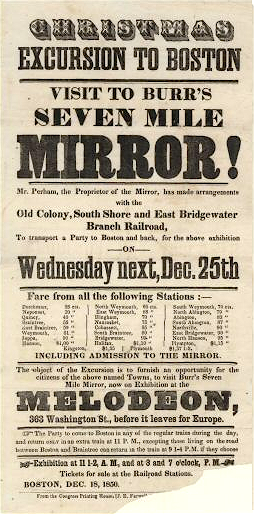 Christmas excursion to Boston. Visit Burr's seven mile mirror! Mr. Perham, the proprietor of the mirror, has made arrangements with the Old Colony, South Shore and East Bridgewater Branch Railroad, to transport a party to Boston and back, for the above exhibition on Wednesday next, Dec. 25th ...